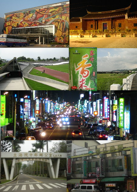 Wufeng,Taichung中文（台灣）: 臺中霧峰。